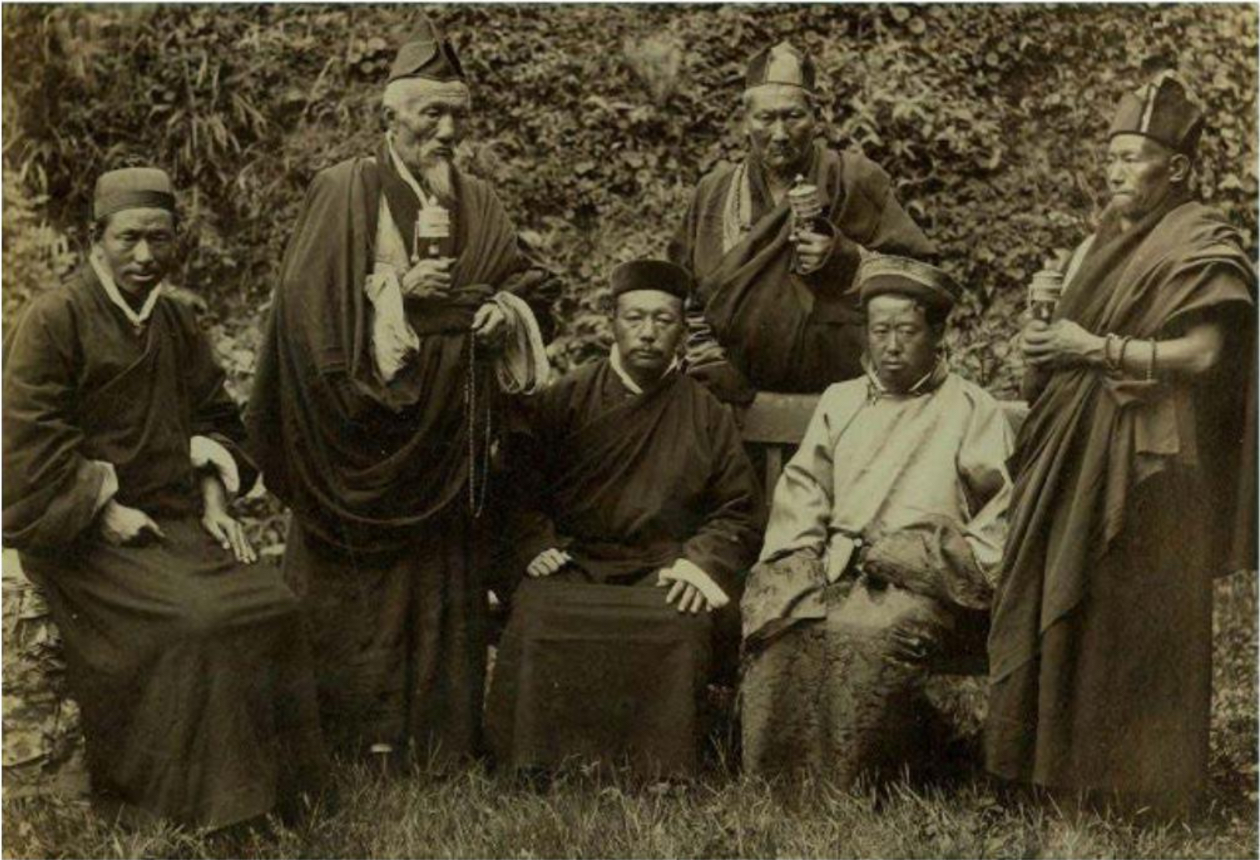 Postcard of a staged photograph featuring the “Darjeeling lamas,” including Lama Sherab Gyatso (second from left), taken around 1890–1900.